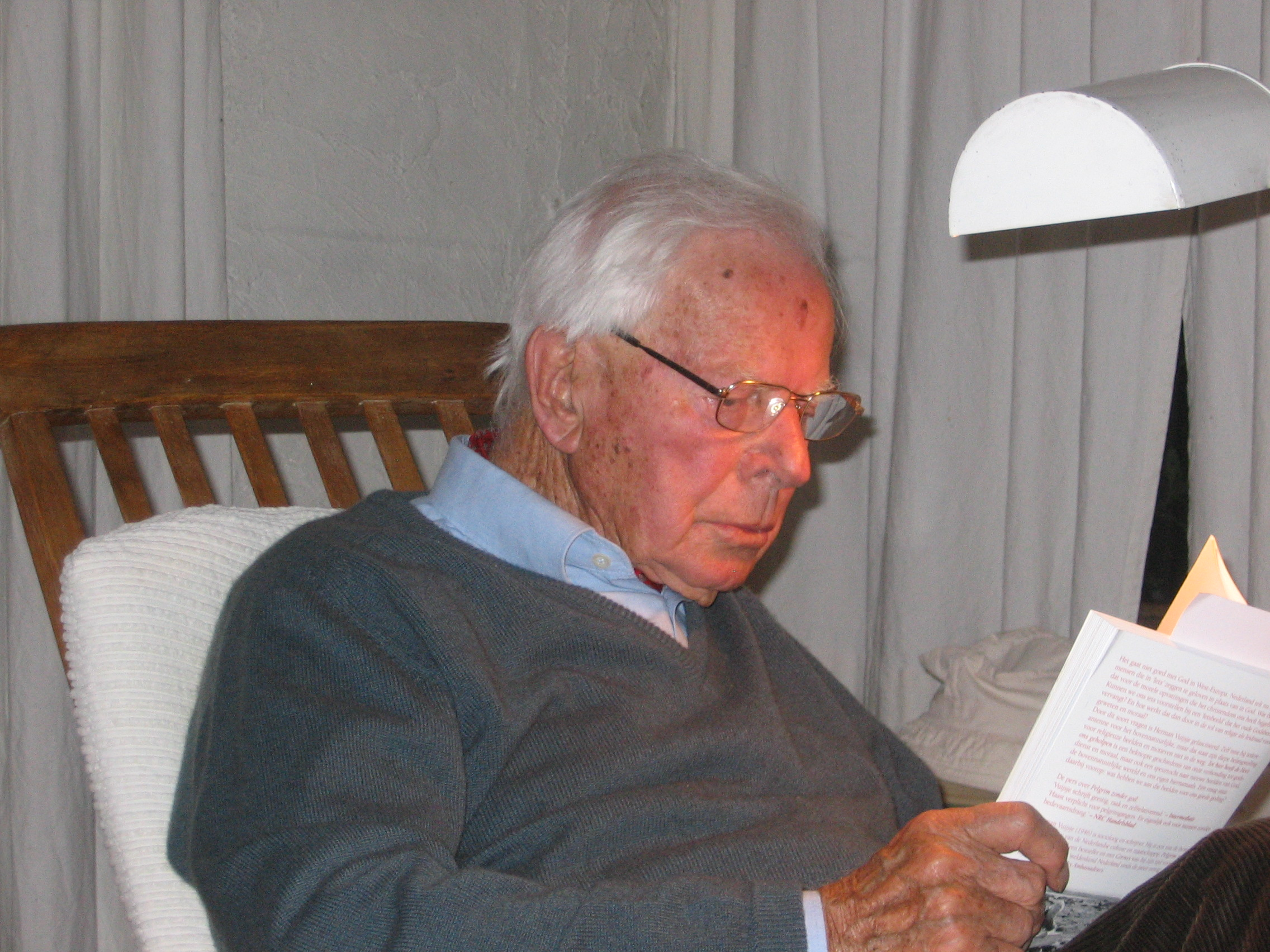 Picture of Max Kohnstamm (93)